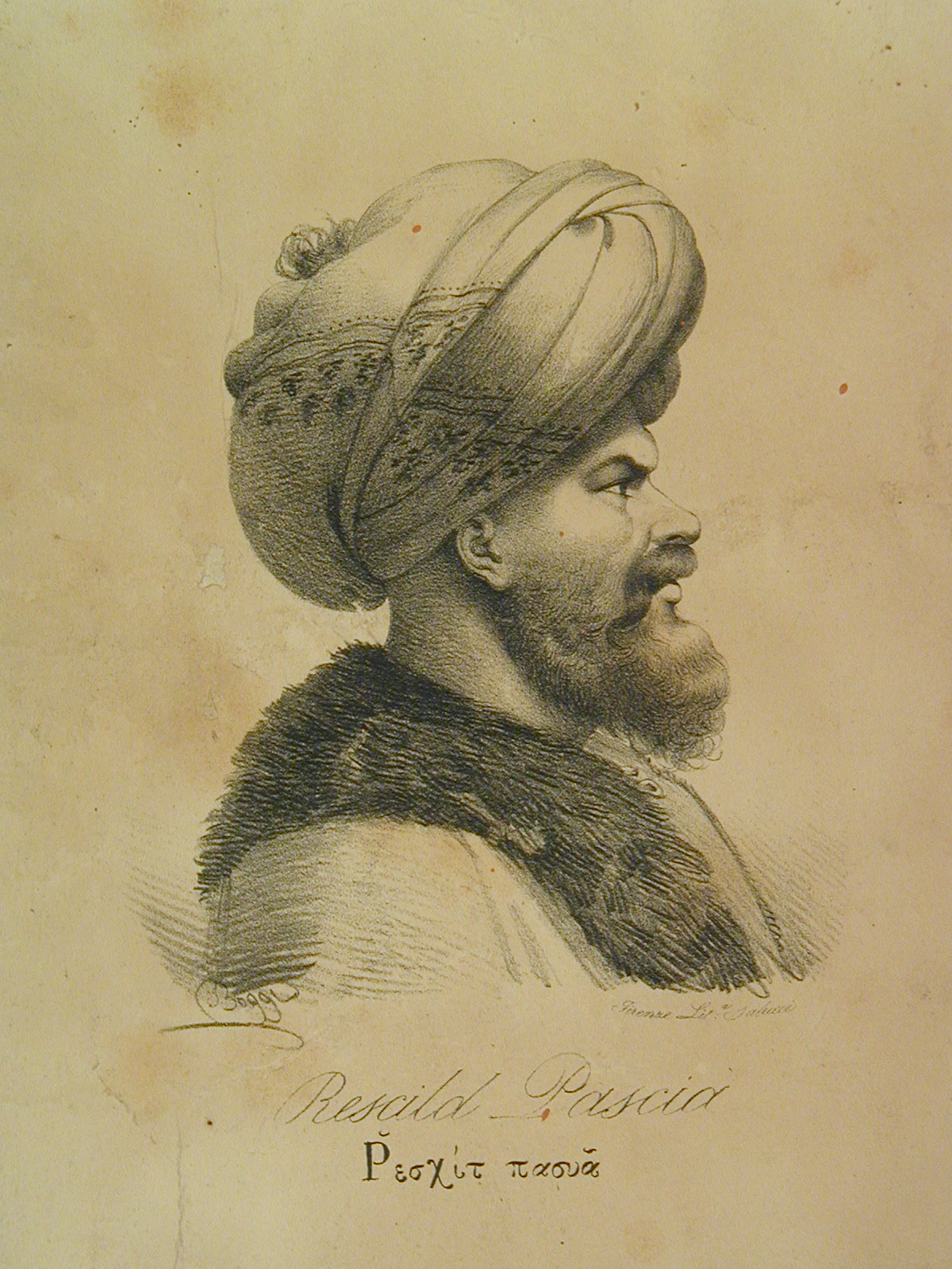 Potrait of Reşid Mehmed pasha Kütahı by Giovanni Boggi.